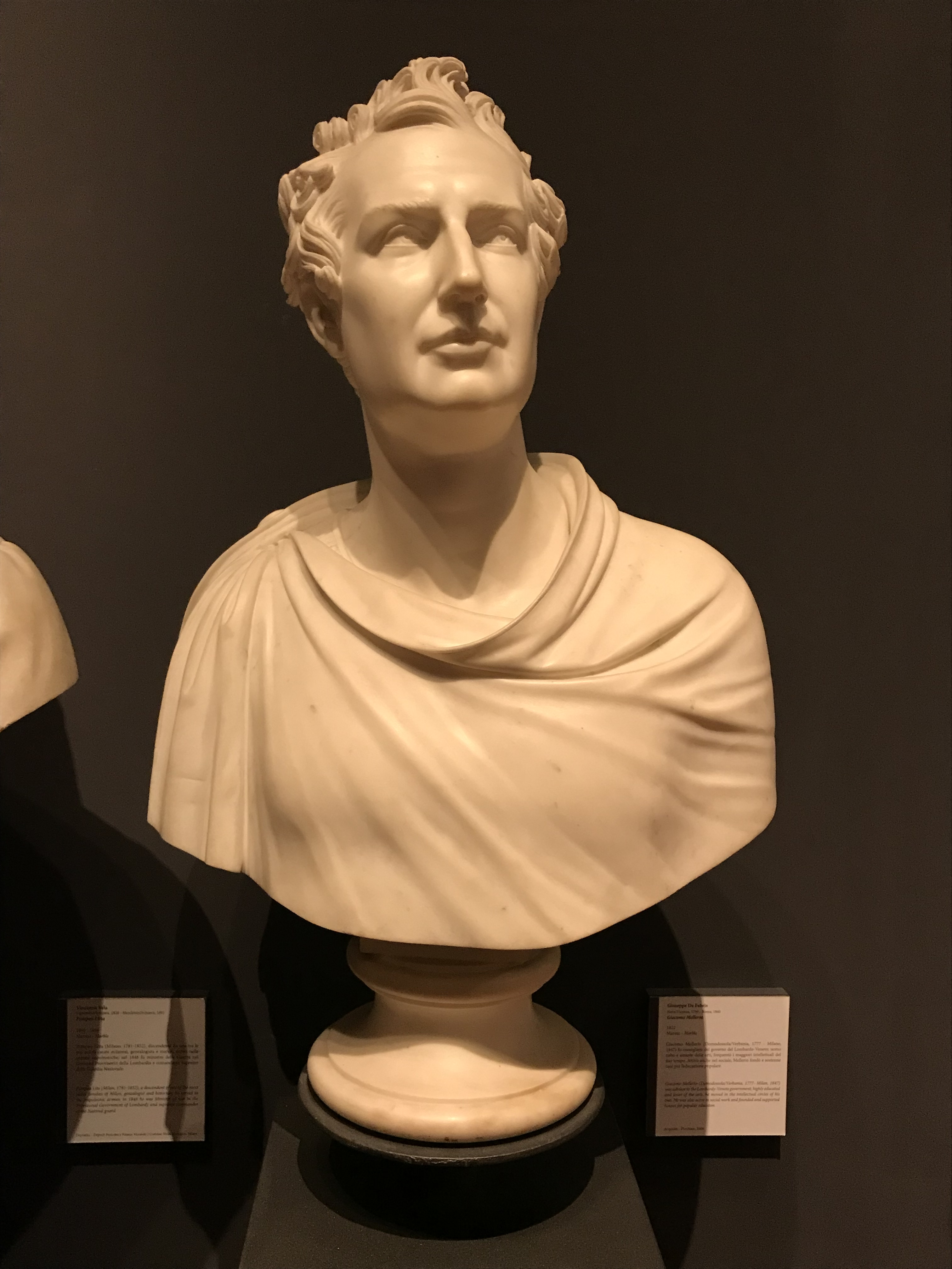 Bust of Italian painter Giuseppe De Fabris (1790–1860) exposed at the Museo del Risorgimento in Milan, Italy. Made in 1822.